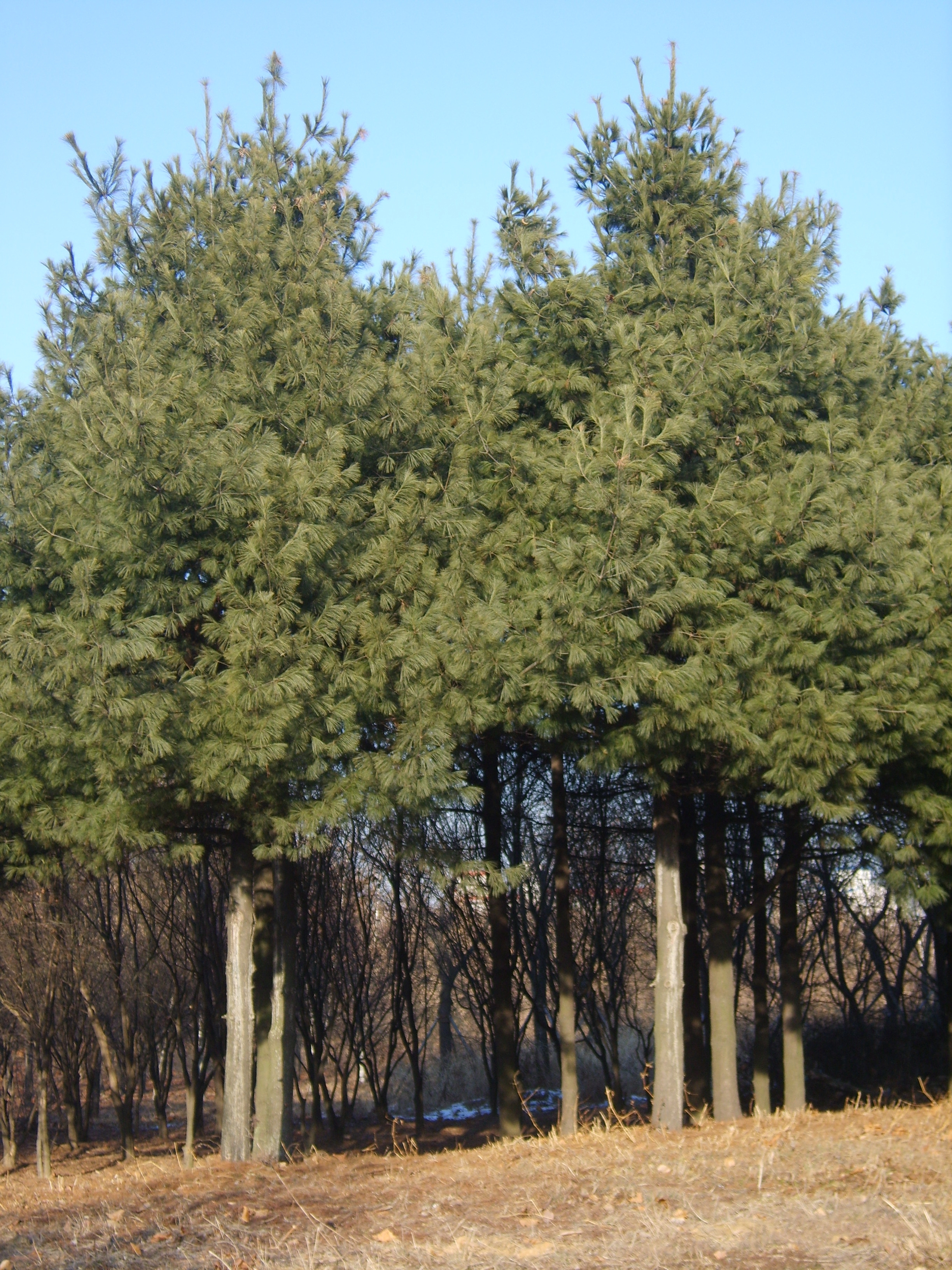 Cultivated Pinus strobus (not Pinus koraiensis as former filename indicated; note slender cones) in Incheon Korea. nearby Woninjae. 원인재 옆 숲에서 찍음.